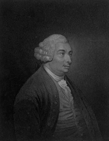 An engraving of Scottish philosopher David Hume from The History of Great Britain.